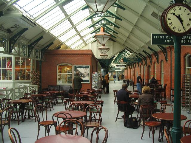 Heritage centre, An Cobh. This is where approx 2.5 million people emigrated to America during the Irish famine. In addition, there were many deportations to Australia. This was also the last port of call of the Titanic. The heritage centre provides information on all these subjects and more. At the end of this hallway is the railway terminus.